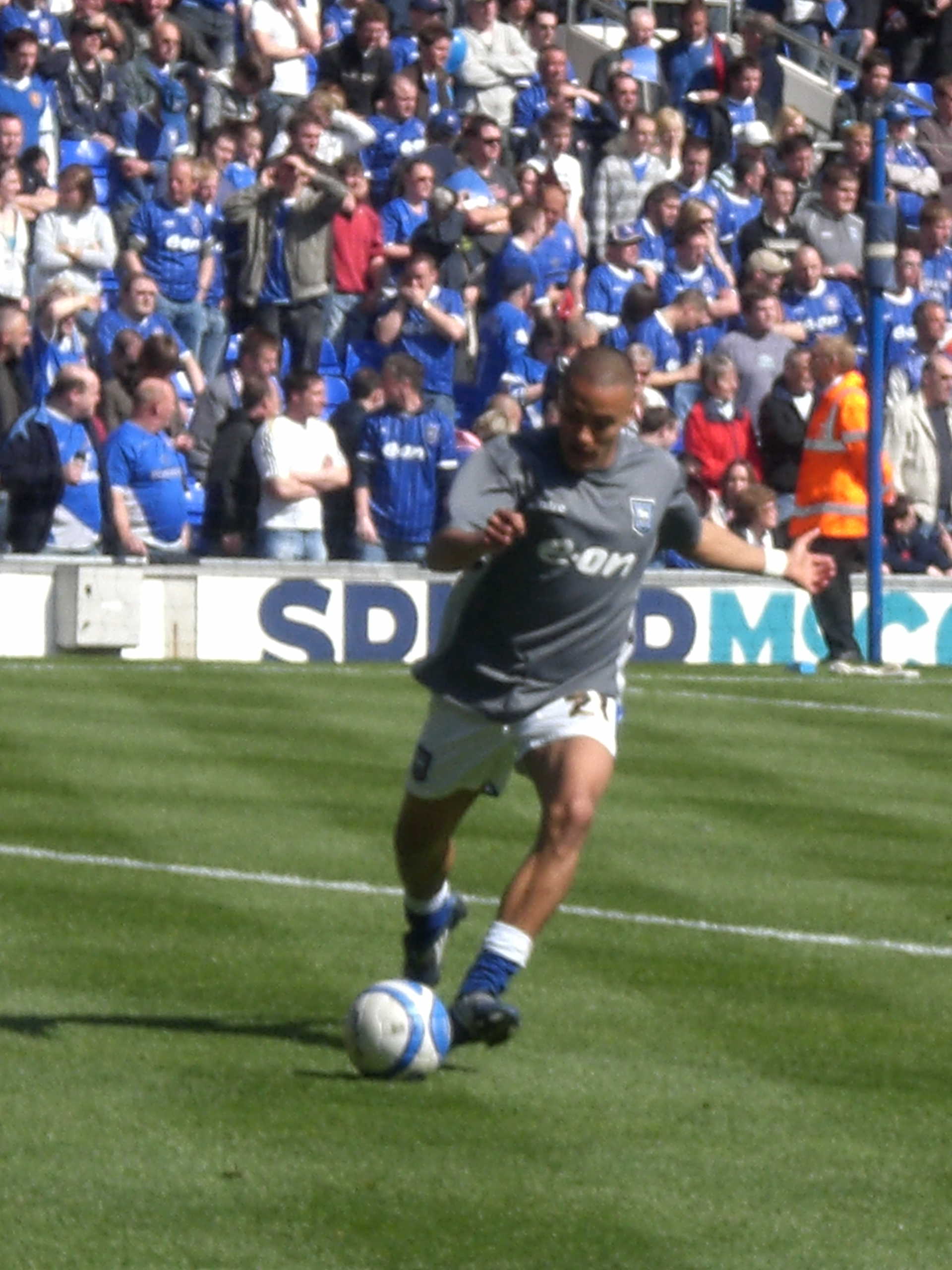 Danny Simpson playing for Ipswich Town in a match versus Norwich City, April 13th 2008.